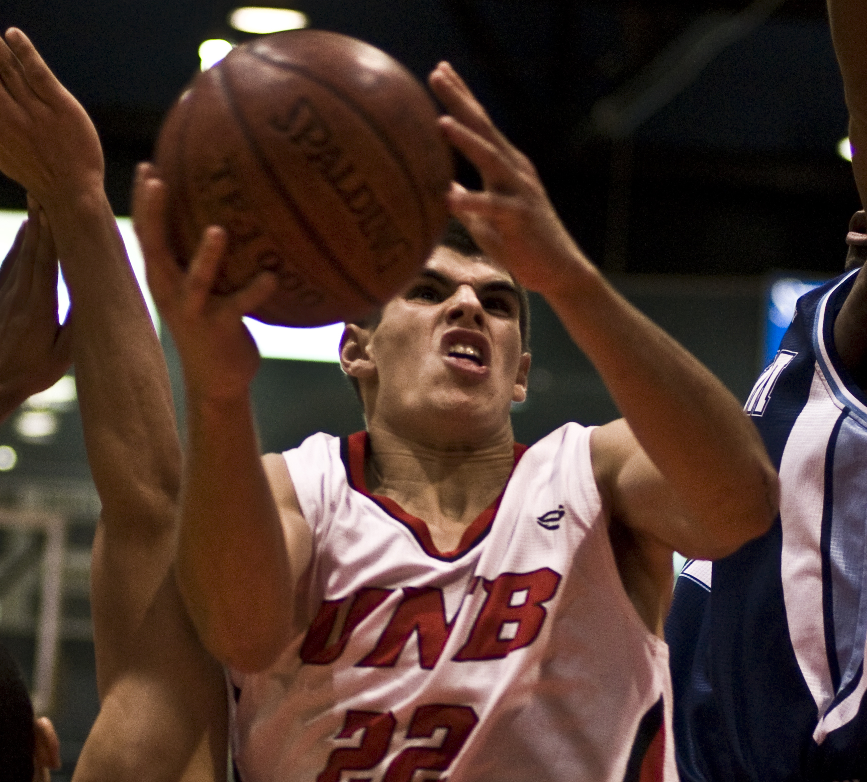 Alex DesRoches of UNB shoot against Lee Academy on 4 Feb 2010